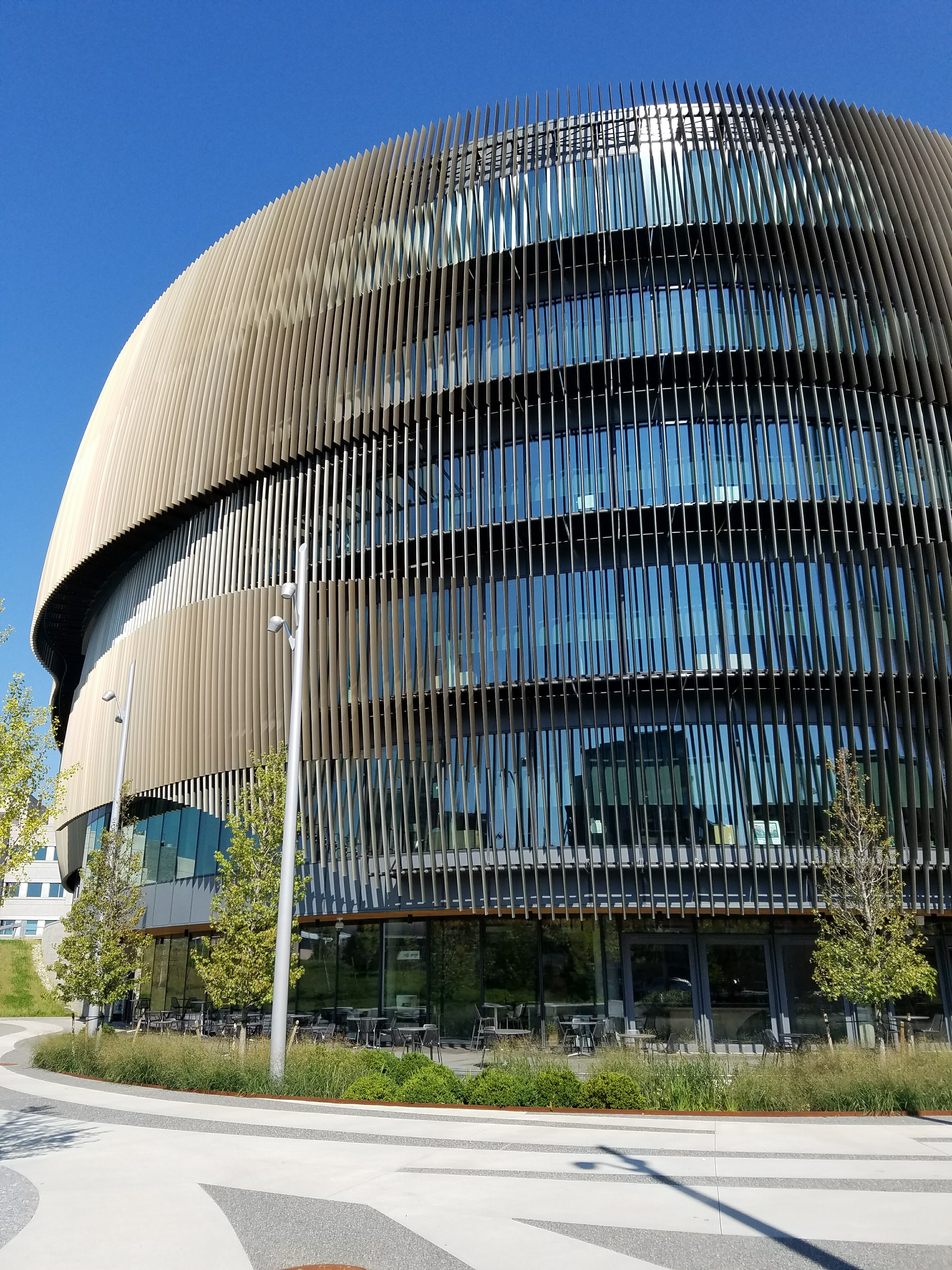 Exterior of ISEC at Northeastern University